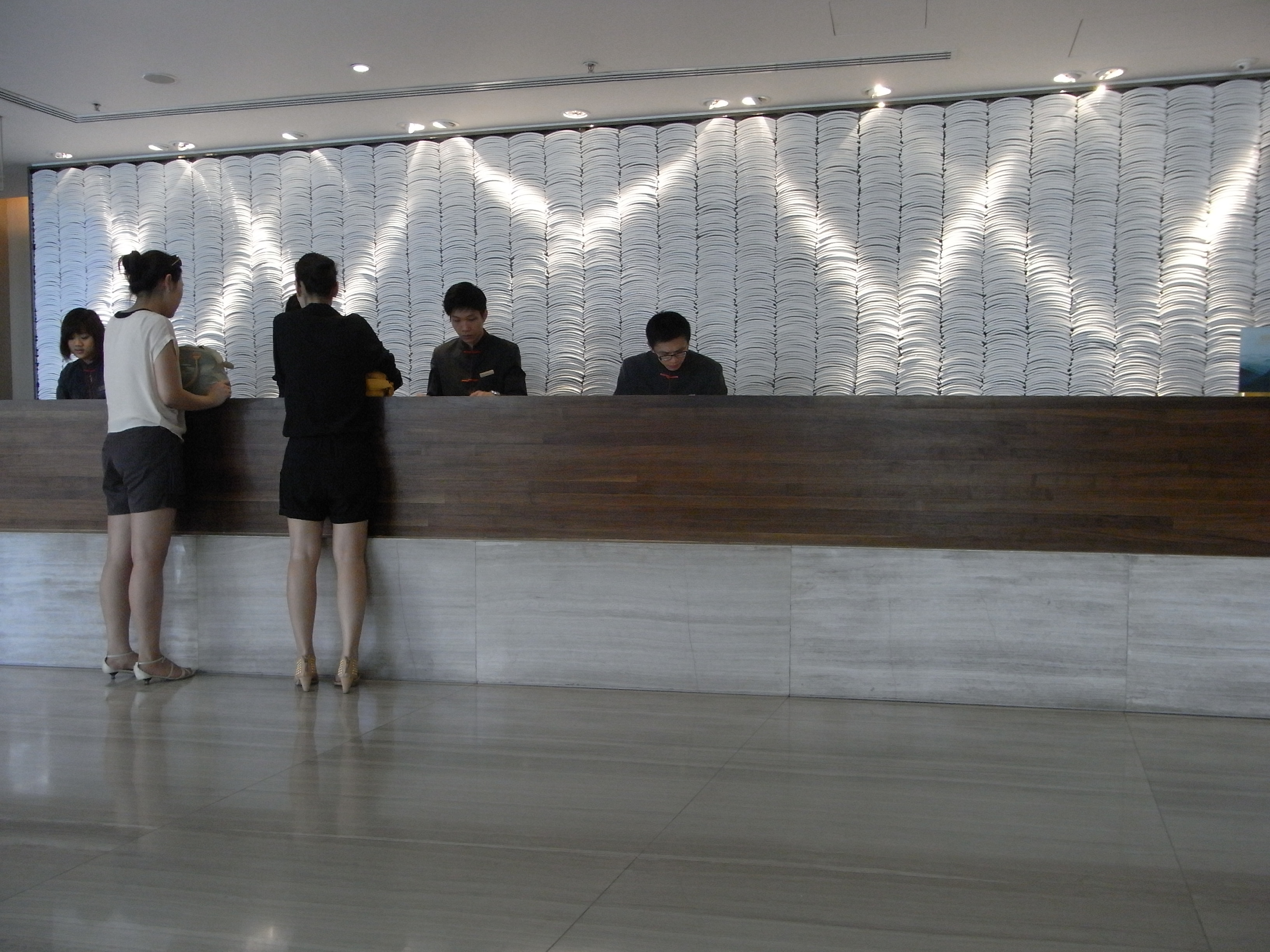 香港島石塘咀zh:皇后大道西508號 香港盛貿飯店